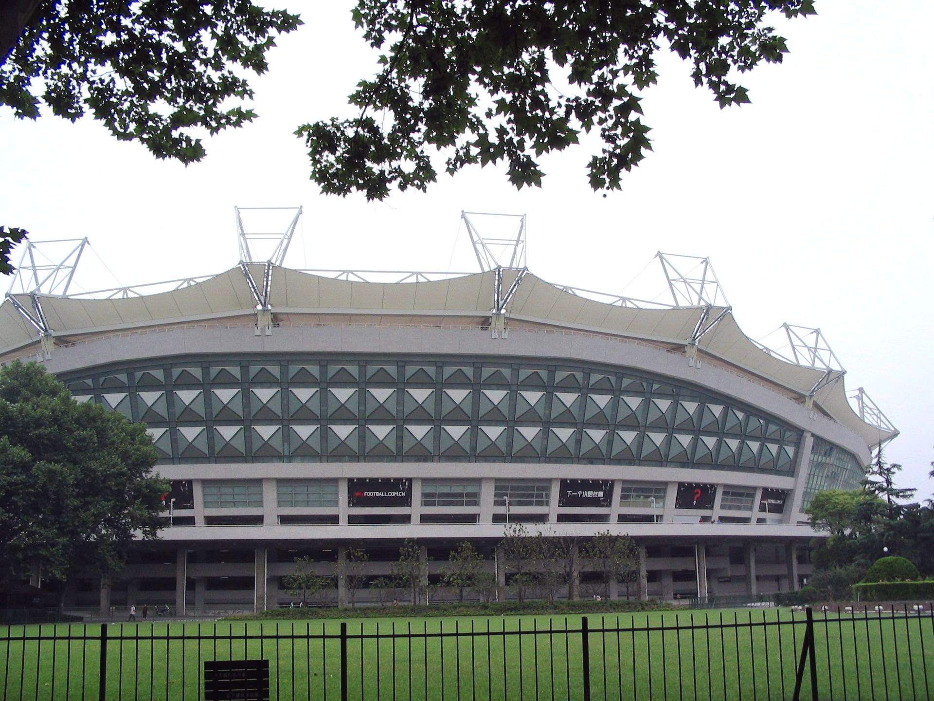 Hongkou Stadium, in Shanghai, view from Lu Xun park